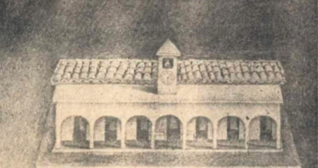 Lithograph showing the Town Hall of the city of Santa Ana, was located in the northeastern corner of the current municipal palace, was built in the nineteenth century (at the end of the colonial era) and destroyed in a fire in 1870.